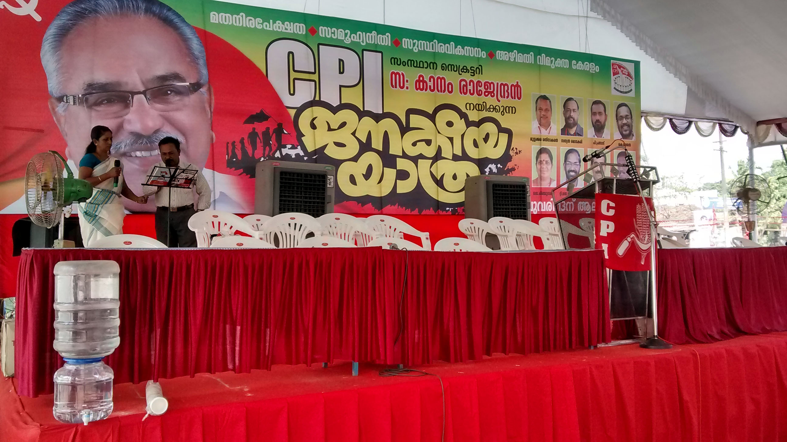 cpi kerala janakiya yathra 2016